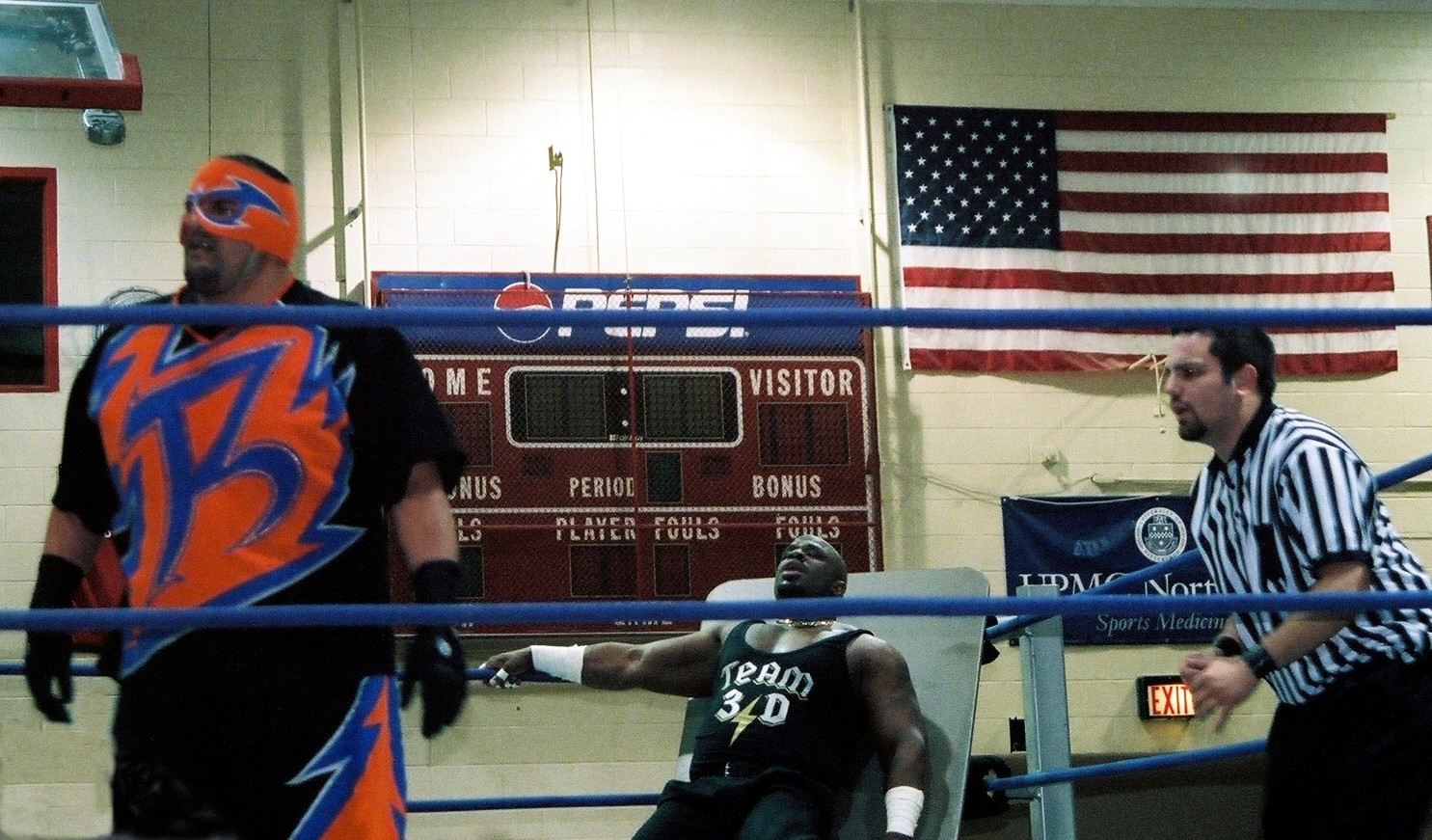 Former WWE Tag Team Champs collide as Rosie sets up D-Von Dudley on a table in Franklin, PA. One side note, D-Von was terrific. He must have signed 700 autographs, posed for pics and was incredibly polite when I met him. My batteries for my flash died so I pushed my ISO 800 film to 3200. The results are pretty grainy.